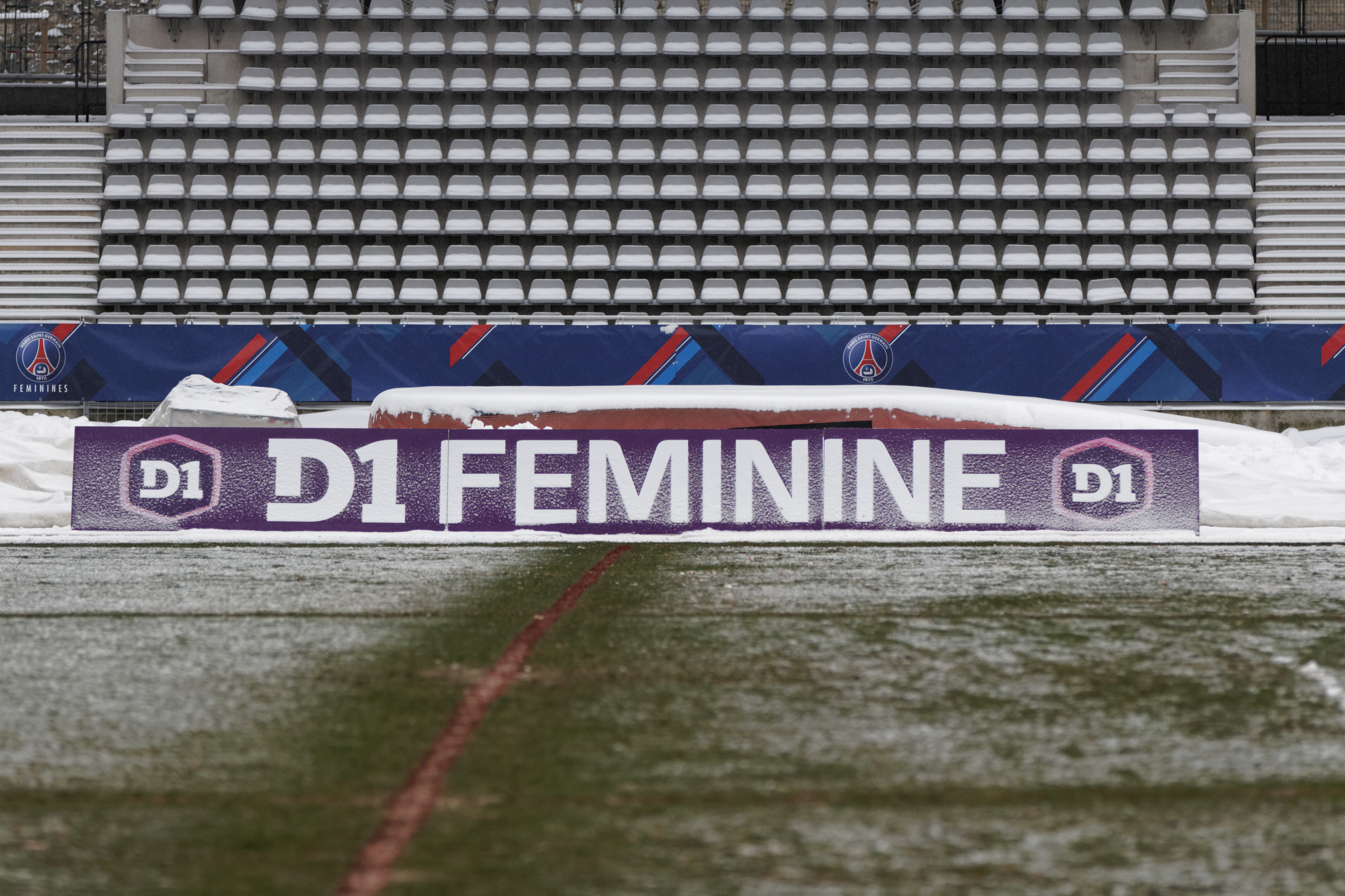 PSG-Toulouse, January 20th, 2013.